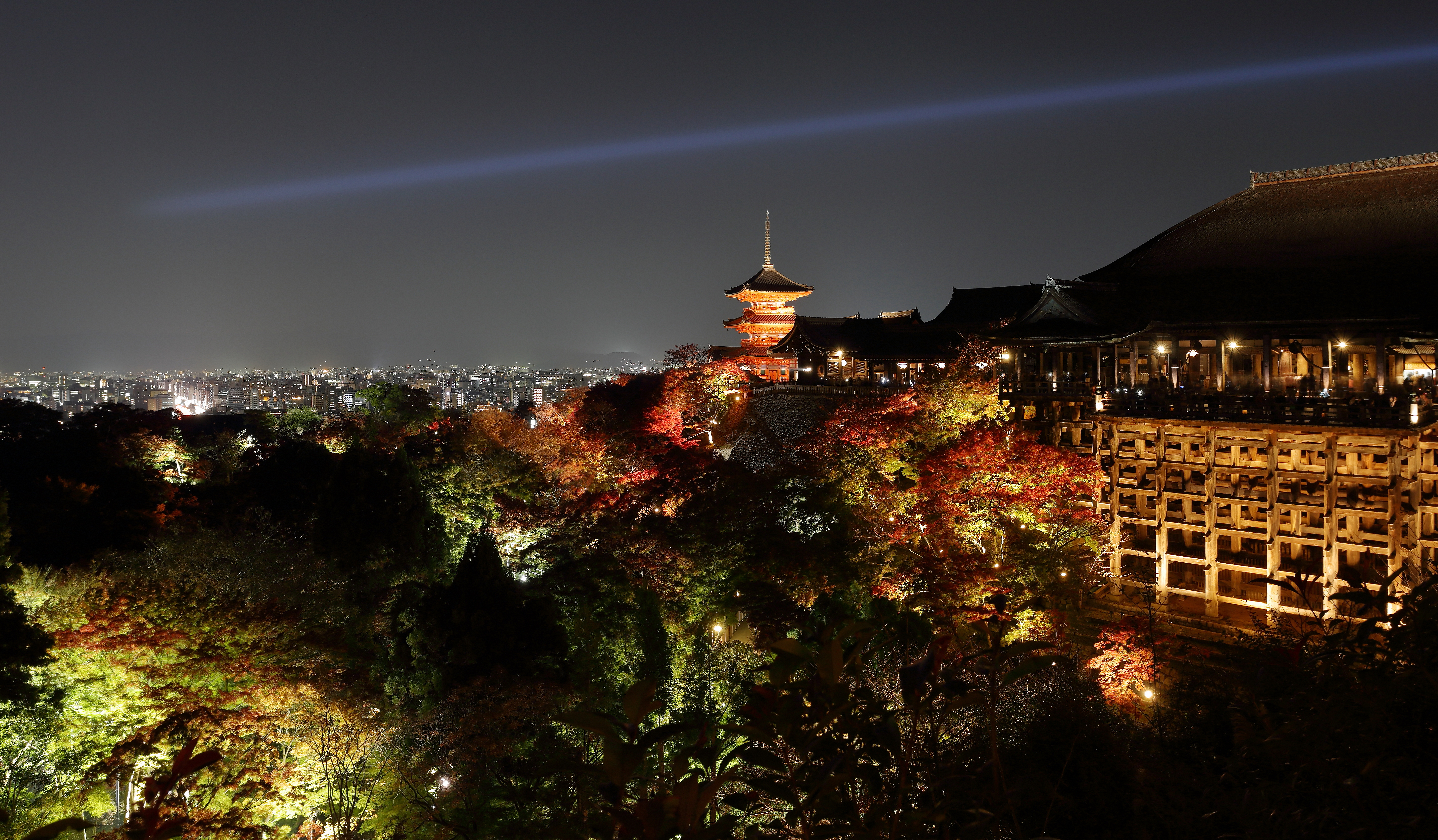 Kiyomizu-dera, Kyoto, Japan, part of UNESCO World Heritage Site Ref. Number 688.